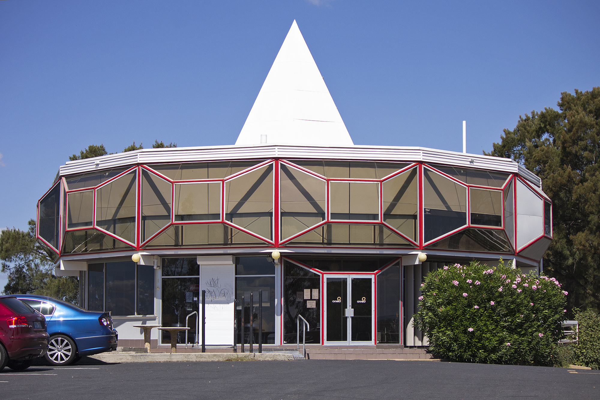 Carousel resturant located on Red Hill in the Canberra suburb of Red Hill, Australian Capital Territory.